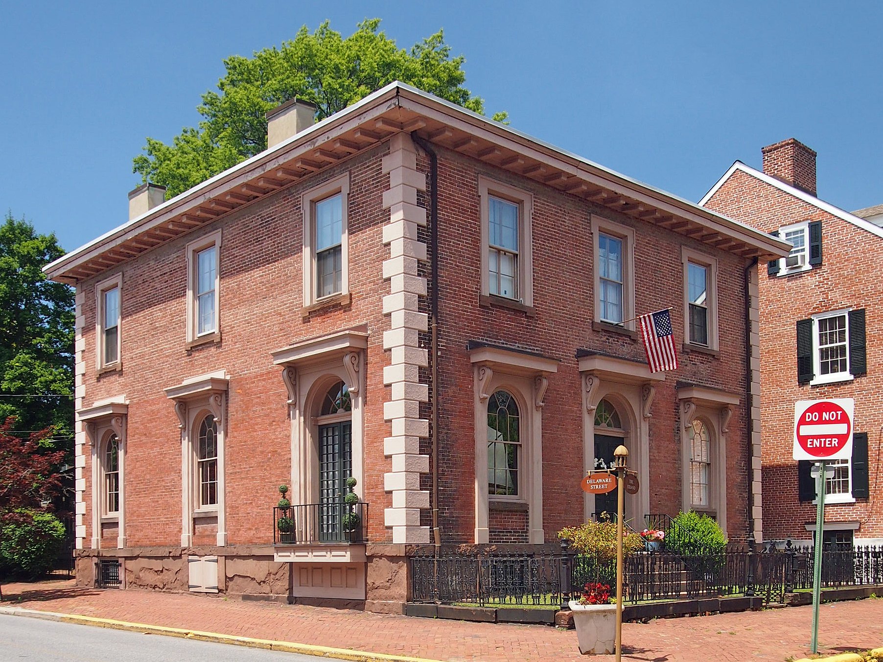 Farmer's Bank, 4 The Strand, New Castle, Delaware, USA. Built as a bank office in 1845 and converted to a house in 1851. Viewed from the south. A contributing property to the New Castle Historic District.